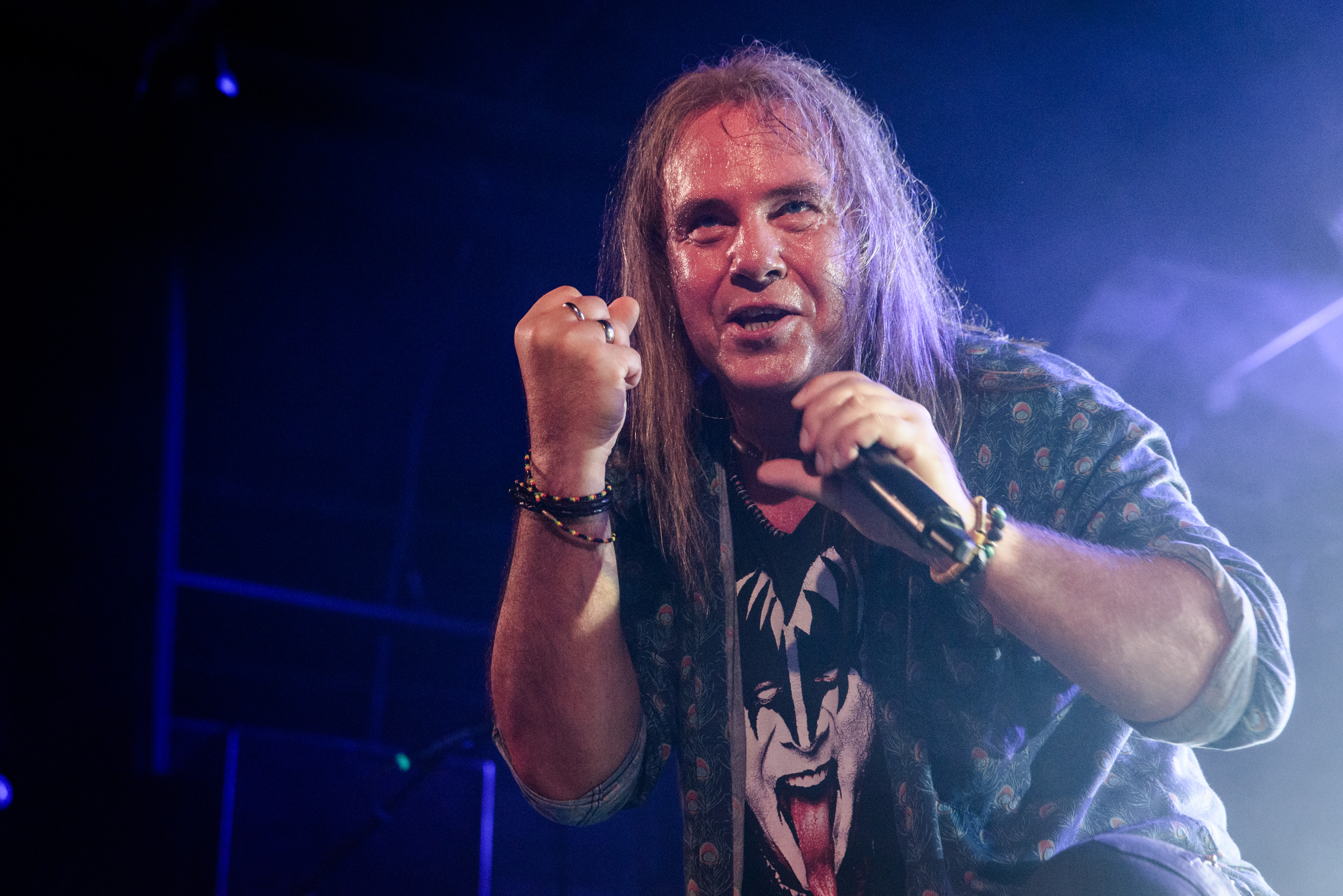 Helloween Live @ Backstage Werk, Munich